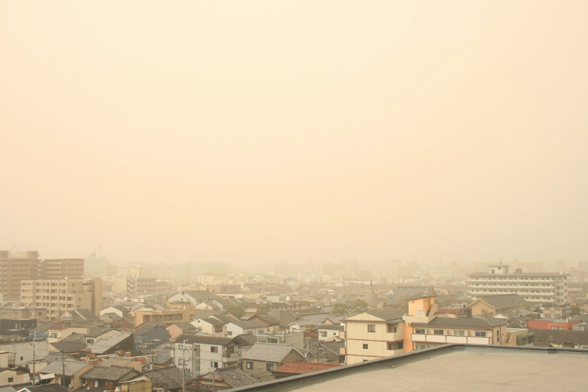 China dust storms attacked Japan in spring, 2010.